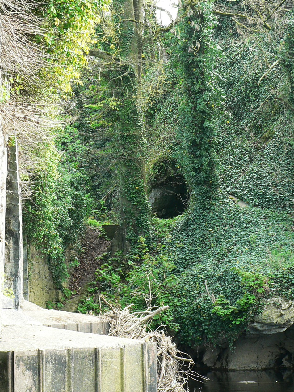 One of the entrances to the Killavullen Caves, photographed across the River Blackwater and alongside Killavullen bridge.